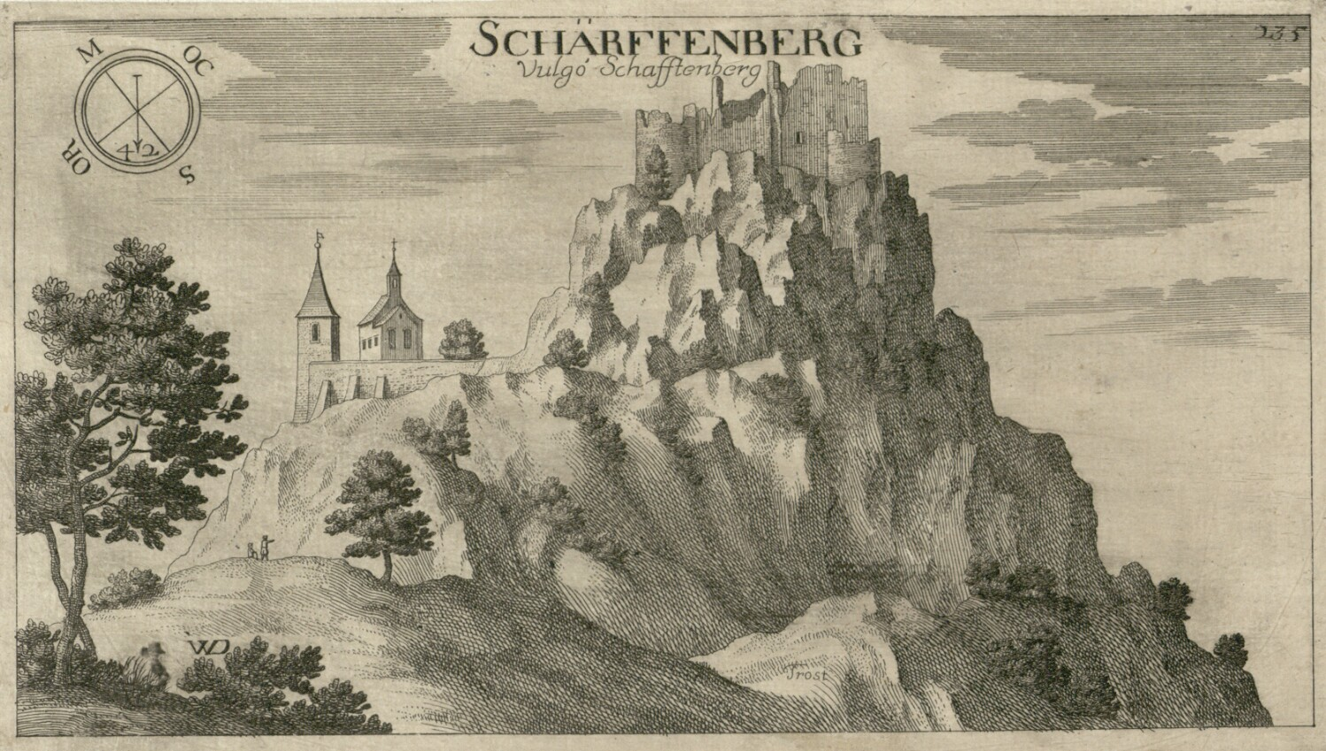 Svibno with castle